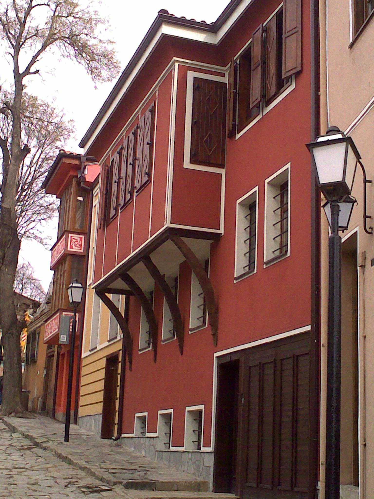 Plovdiv: Old Town